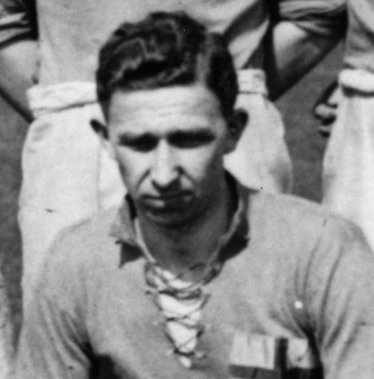 Swedish football player Fritiof Hillén, bronze medalist in the Olympics 1924 in Paris